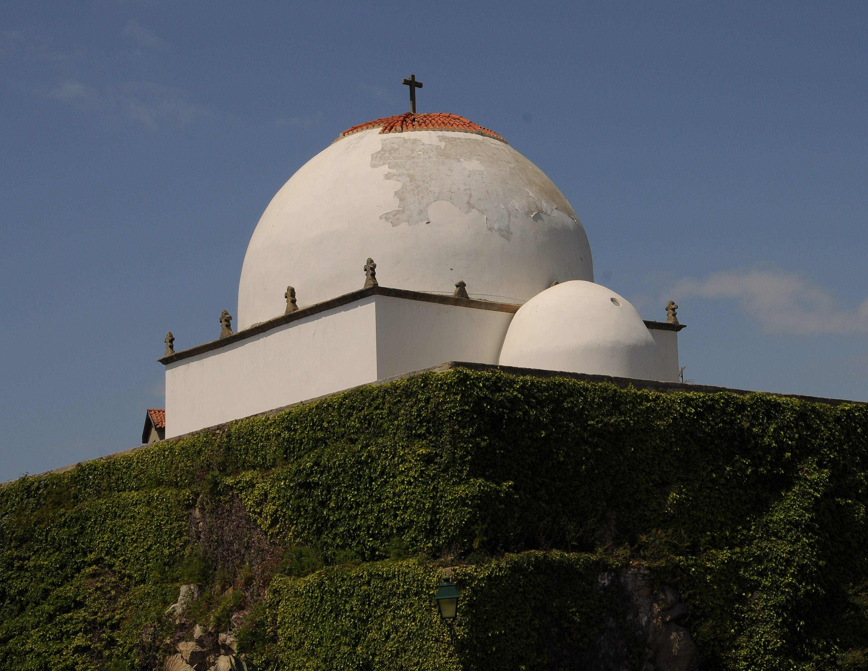 Socorro Chapel in Vila do Conde Portugal